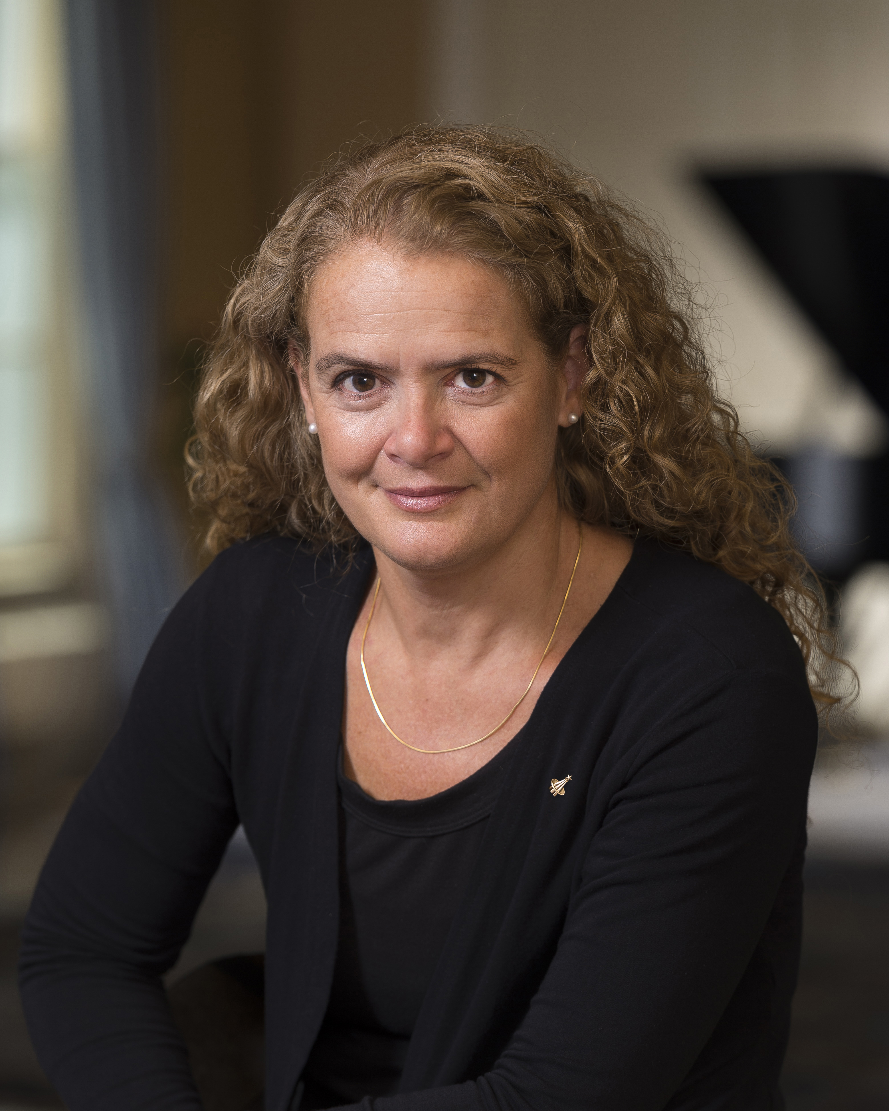 Julie Payette in 2017 at Rideau Hall.